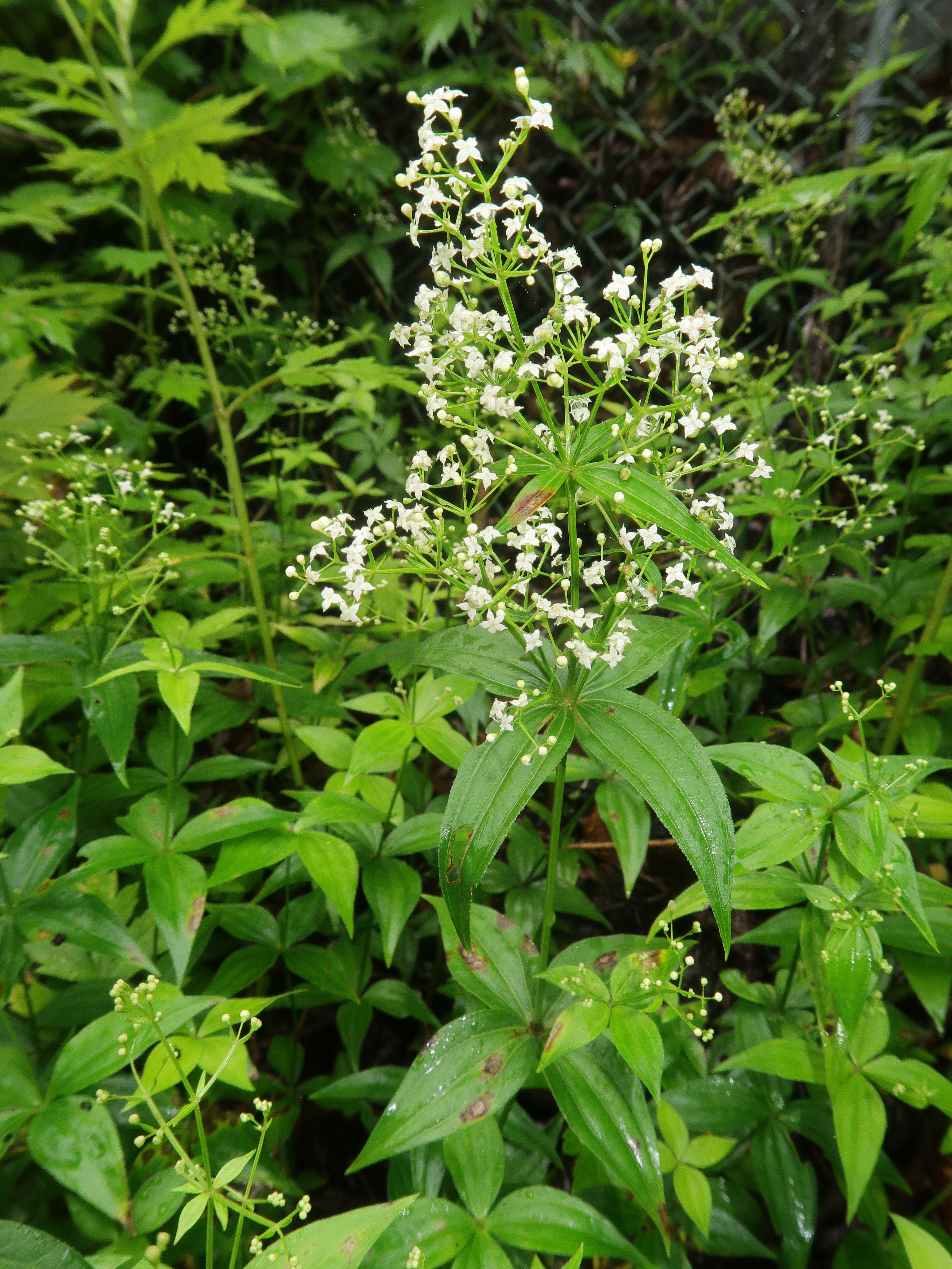 Galium kinuta, Naka-dori area, Fukushima pref., Japan